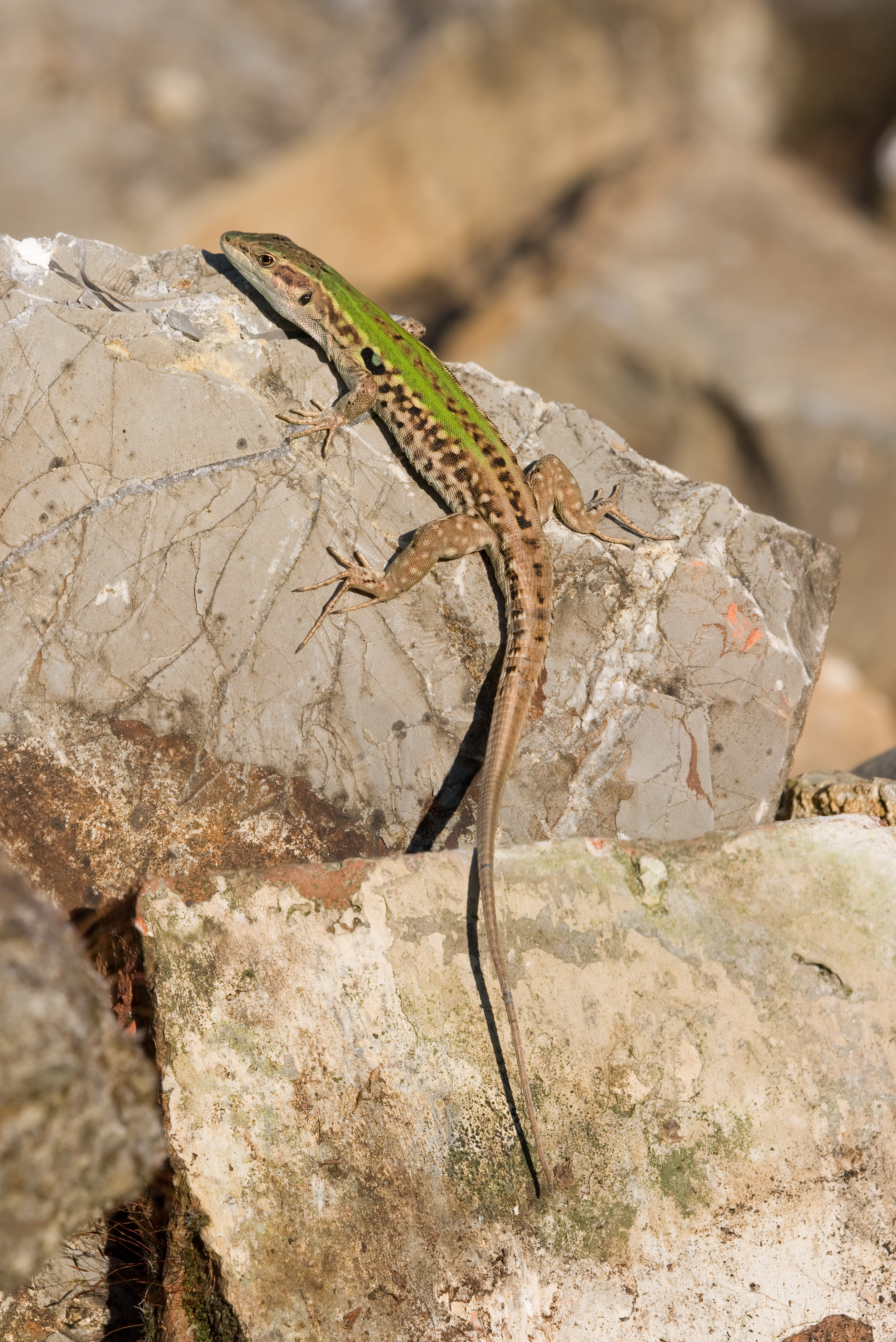 The Italian Wall Lizard or Ruin Lizard (Podarcis sicula) is a species of lizard in the Lacertidae family. P. sicula is found in Bosnia and Herzegovina, Croatia, France, Italy, Serbia and Montenegro, Slovenia, Spain, Switzerland, Turkey, and the United States. P. sicula belongs to the Squamata family of lizards and it is the most abundant lizard species in southern Italy.